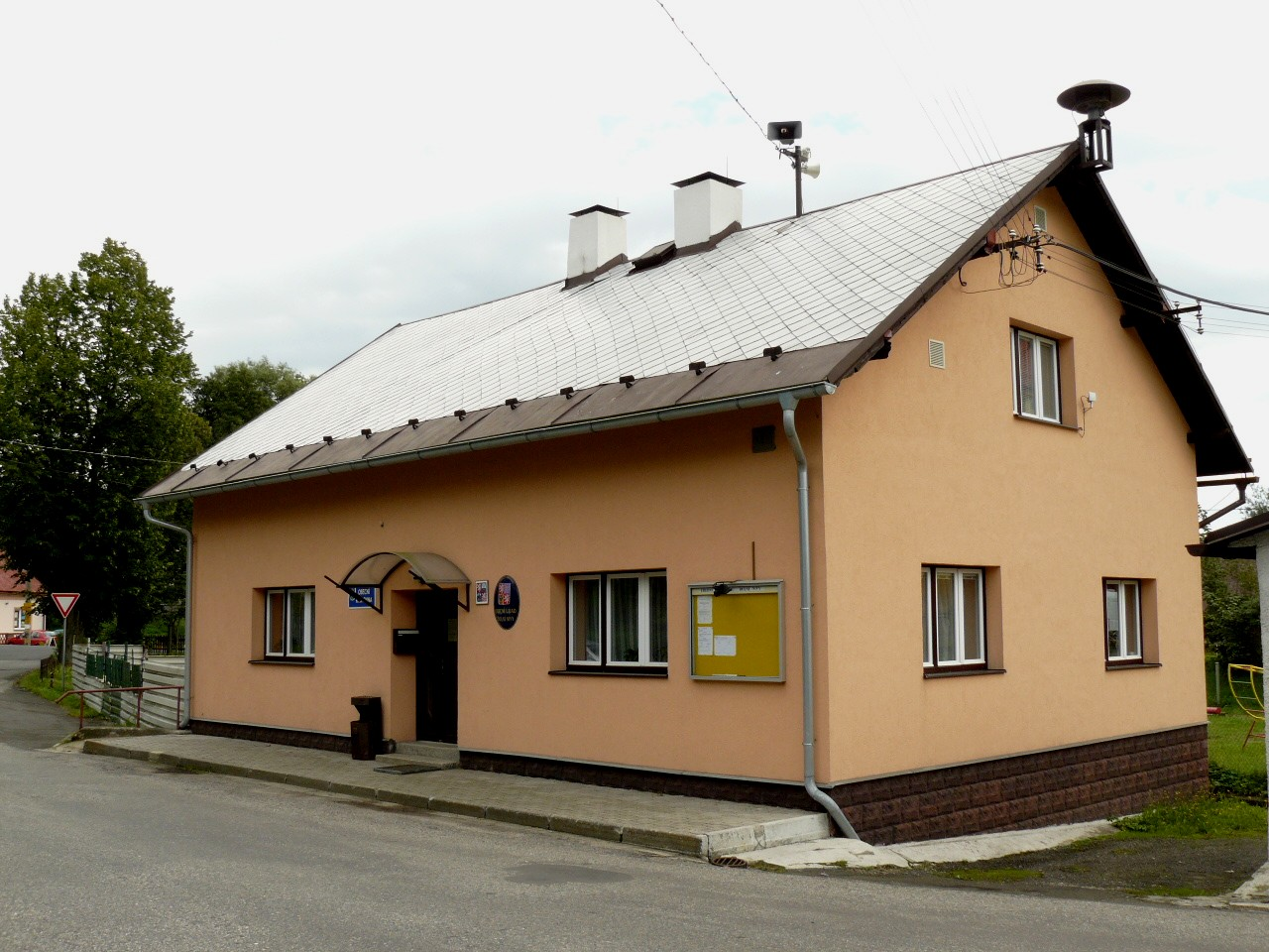 This photograph was taken within the scope of the second year of the 'Czech Municipalities Photographs' grant.